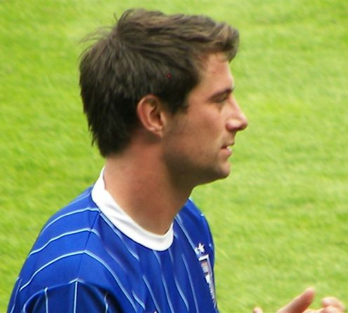 Alan Lee. Image cropped from original at flickr.